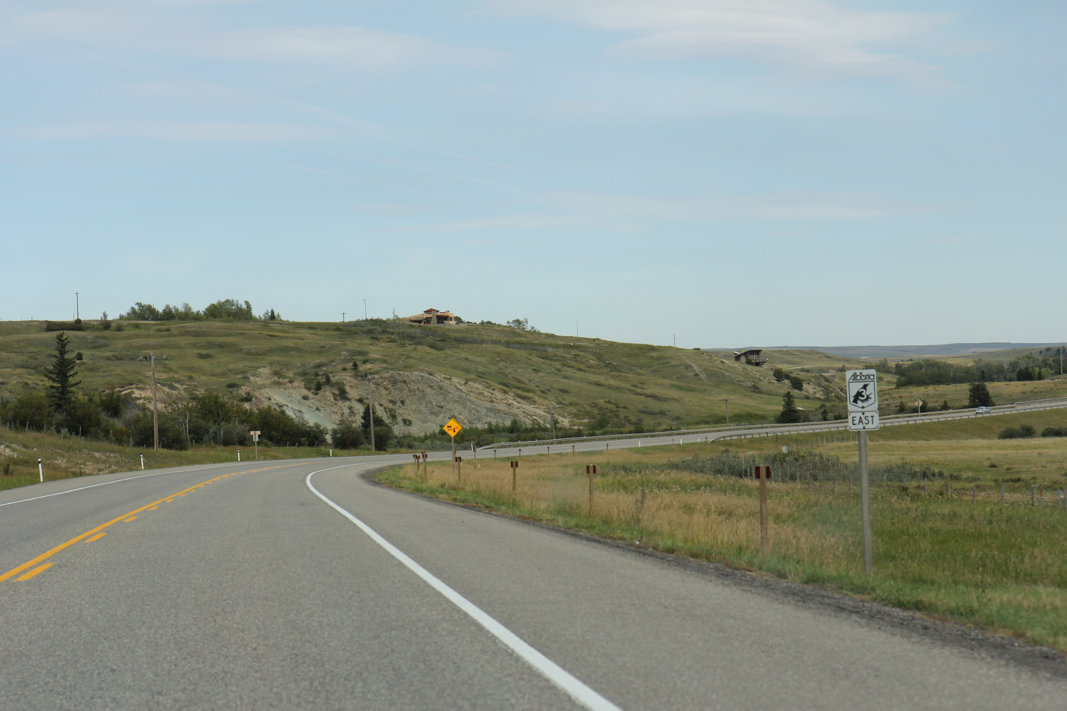 Alberta Highway 3 (Crowsnest Highway) just east of Alberta Highway 22.